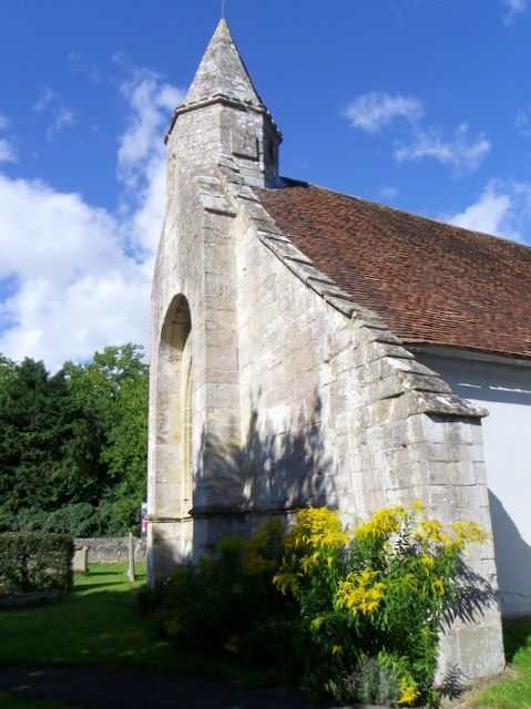 Goldenrod, Solidago canadensis, in St Peter's parish churchyard, Fugglestone St Peter, Wiltshire